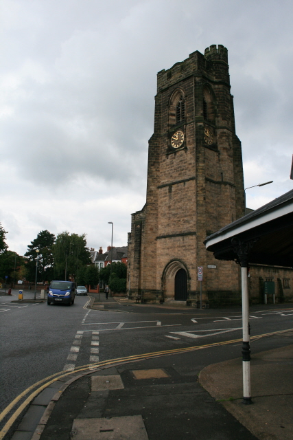 Christchurch Methodists Landmark on the corner of Derby Road and College Street. The clock was stuck at ten past six for a long time, until some wag moved it to ten past five at the start of BST. It's now working. In the foreground is a decorated awning on a corner shop - currently a barber's.